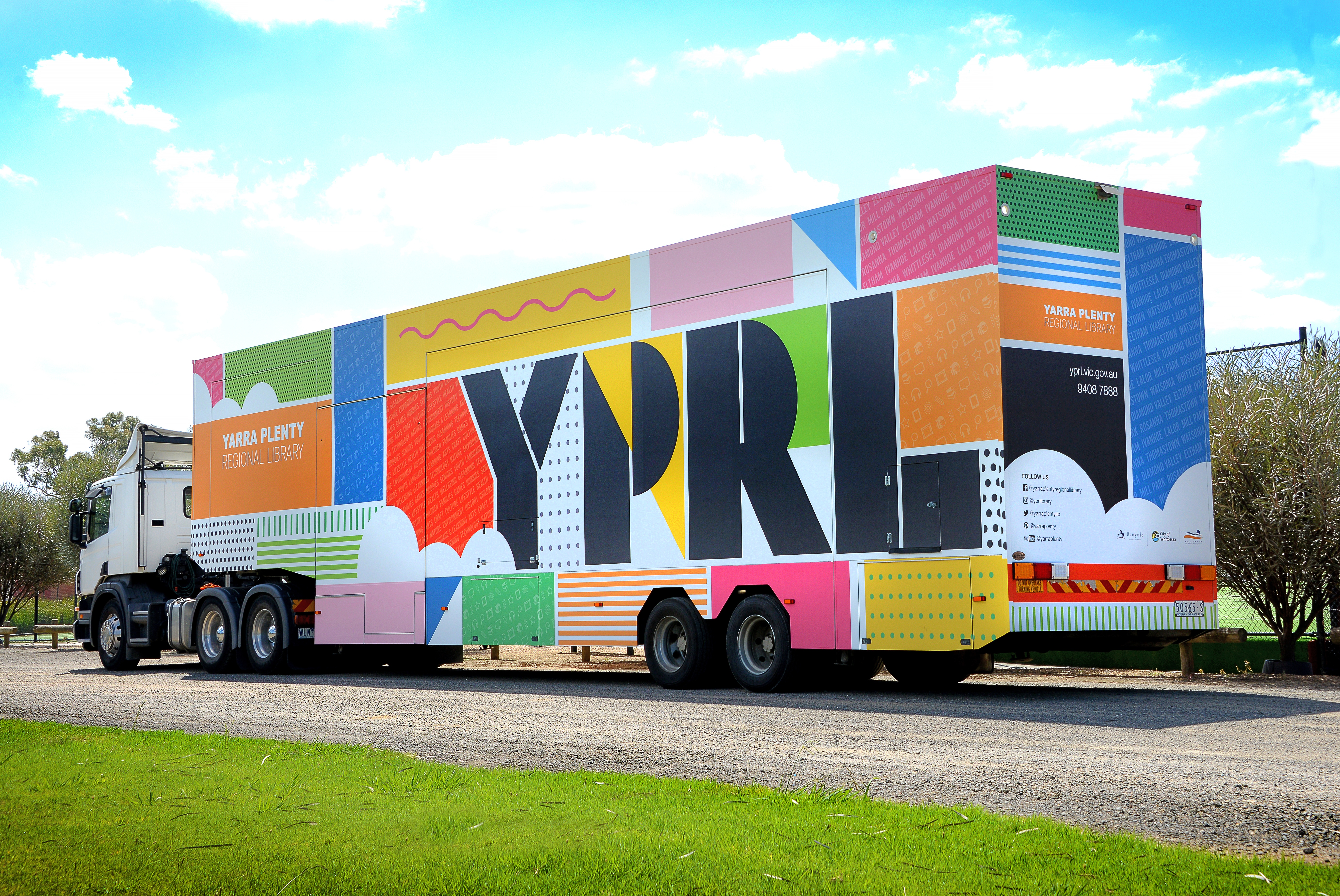 Mobile Library for Yarra Plenty Regional Library